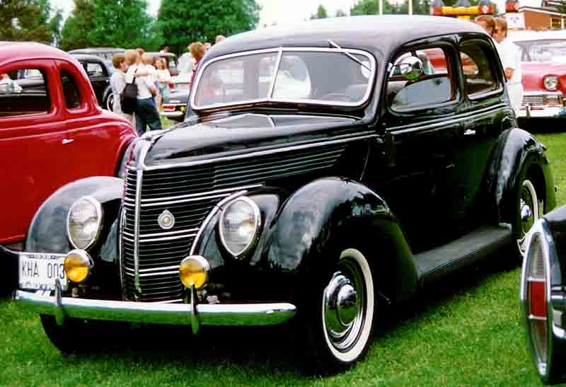 Ford 700C Standard Tudor Sedan 1938